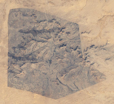 Photo-like Landsat 7 ETM+ image of Sidi Toui National Park, Tunisia.